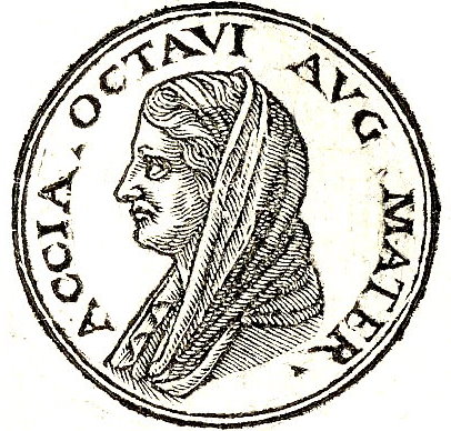 Atia Balba Caesonia (85 BC-43 BC) was a Roman noblewoman. She was the mother of the Roman Emperor Augustus, and daughter of Julius Caesar's sister Julia Caesaris.